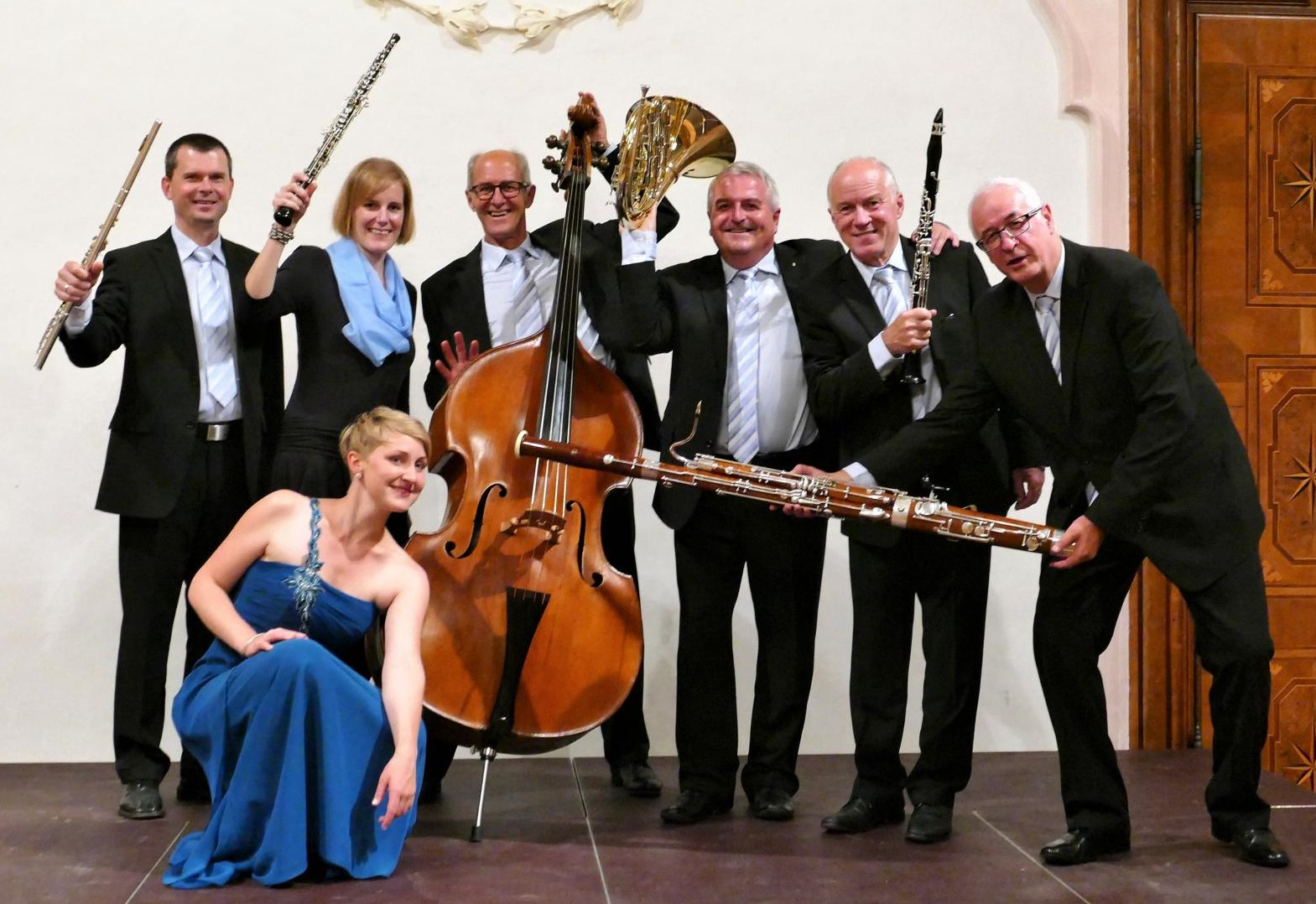 Capella Concertante 2018